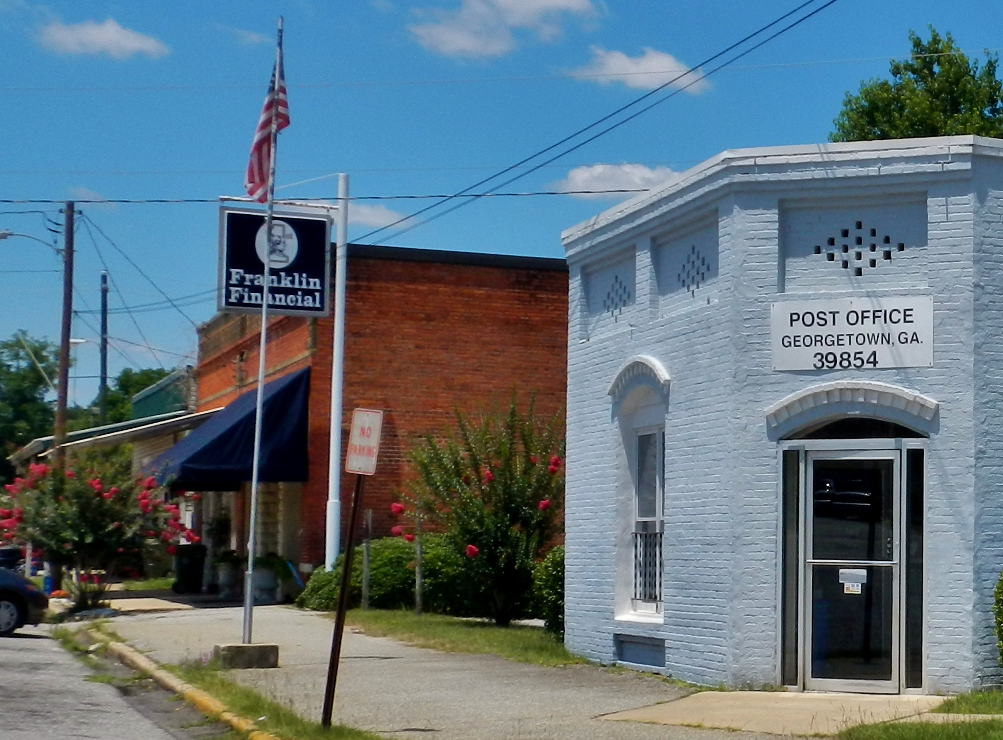 This is a photograph of Georgetown, GA.